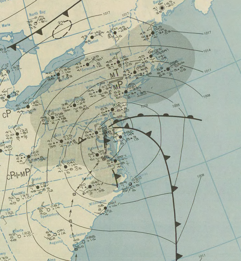 Surface weather analysis of the 1944 Cuba–Florida hurricane's remnants over Chesapeake Bay on October 21, 1944, at 2:30 a.m. Eastern War Time.